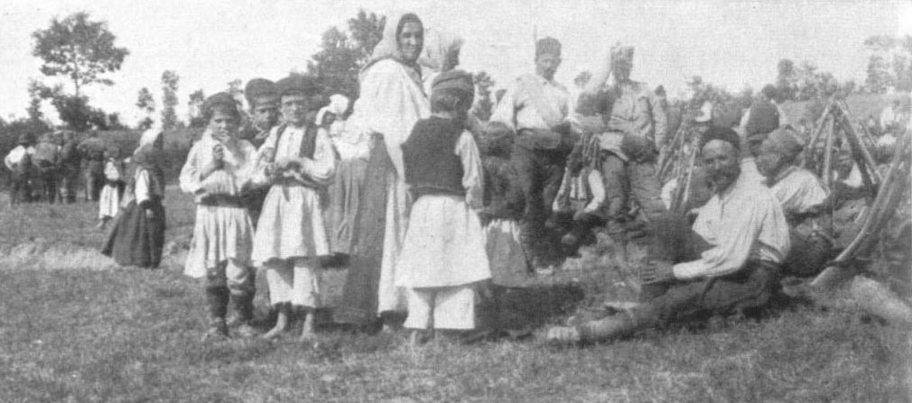 "Pecka; a regiment of the second call after a forced march; refugees asking for bread"